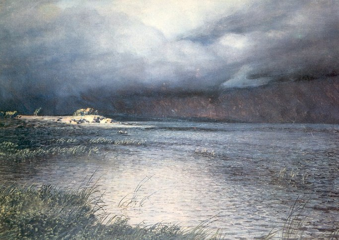 Looming cloud. 1912. Oil on canvas. Novocherkassk Museum of History of the Don Cossacks, Russian Federation